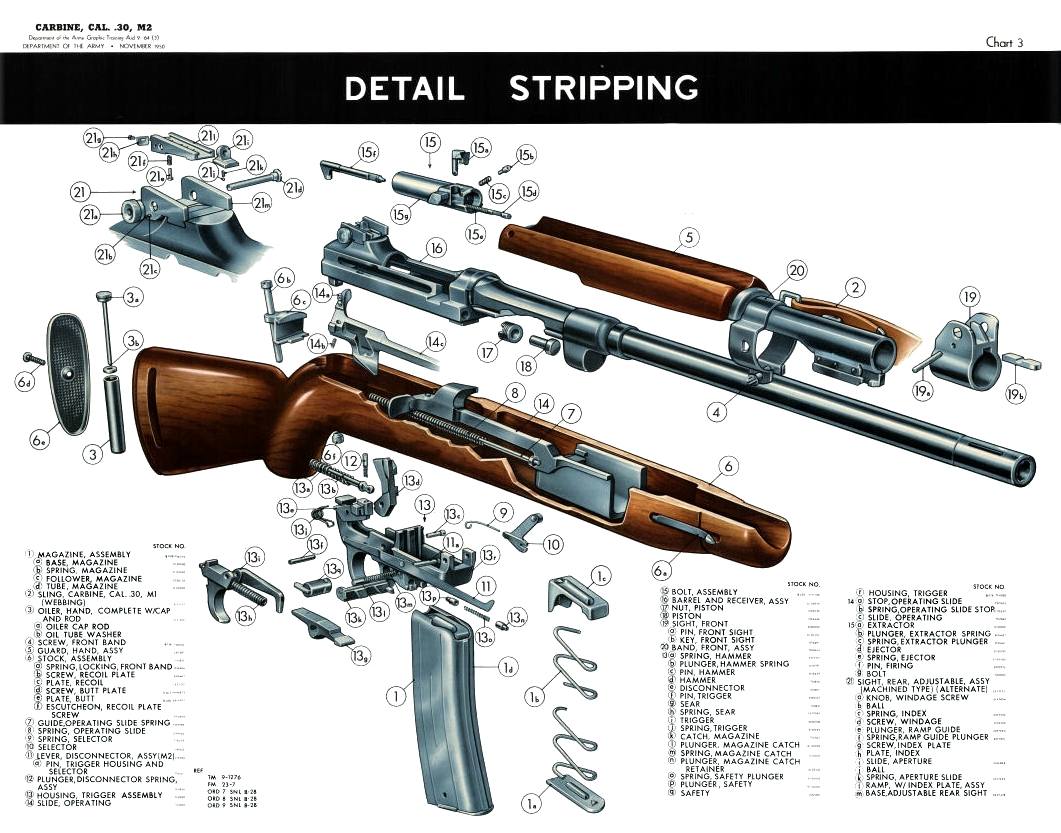 U.S Army Graphic Training Aid. Used by the U.S army During World War2.